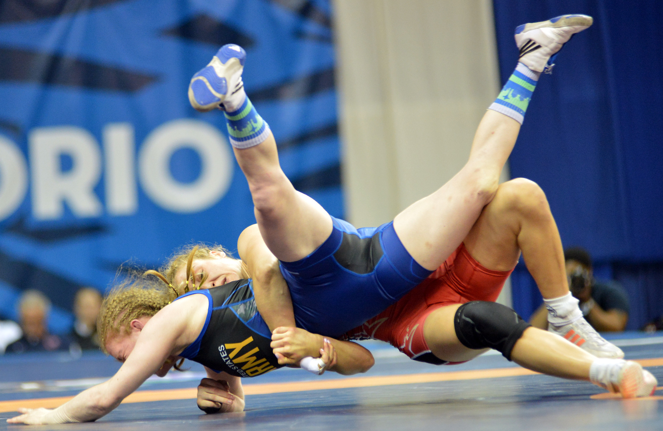 Reigning world champion Helen Maroulis of Huntington Beach, Calif., takes down Sgt. Whitney Conder en route to a 10-0, 11-0 victory in the women's freestyle 53-kilogram best-of-three finals of the 2016 U.S. Olympic Wrestling Team Trials on April 10 at Carver-Hawkeye Arena on the University of Iowa campus in Iowa City. (U.S. Army IMCOM photo by Tim Hipps) #RoadToRIo #WCAP #ArmyTeam #USAWrestling